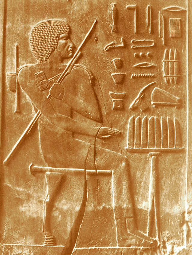 Relief of Hesy-Ra from his Mastaba, shown seated in front of his offering table of possessions, food for sustenance in the Afterlife.Note also the scribal equipment on his body.